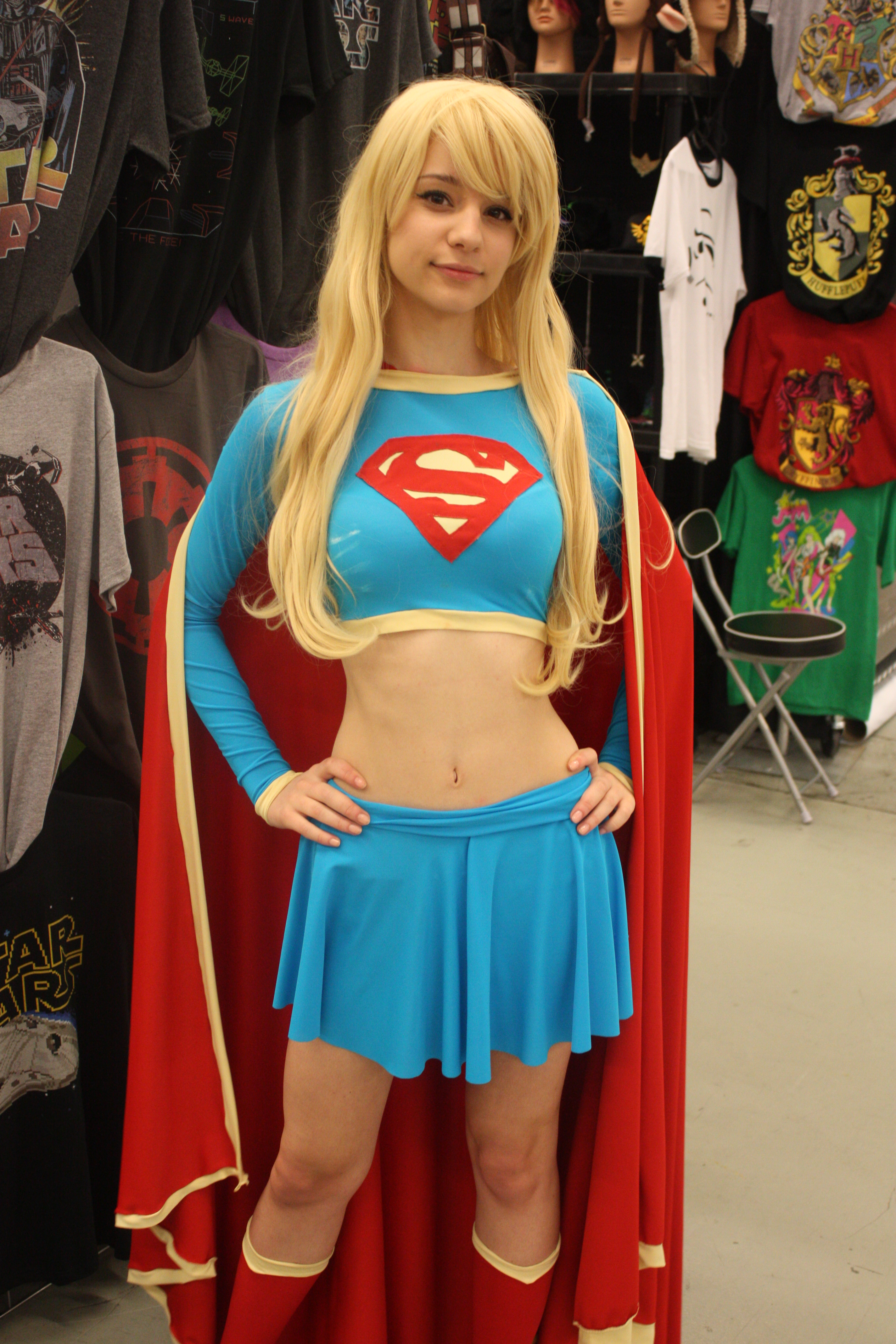 Cosplay on day three of Montreal Comiccon 2015.